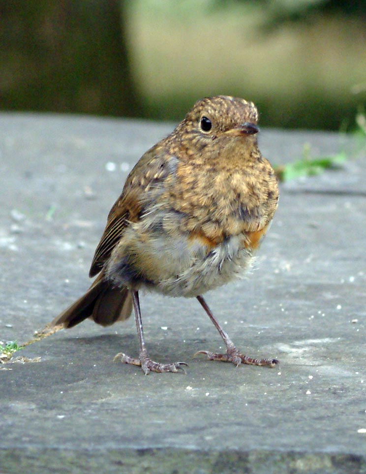 A juvenile European Robin. This image was taken in the Lake District, in the garden of the cafe at Aria Force near Ullswater. It clearly shows the red feathers coming through.